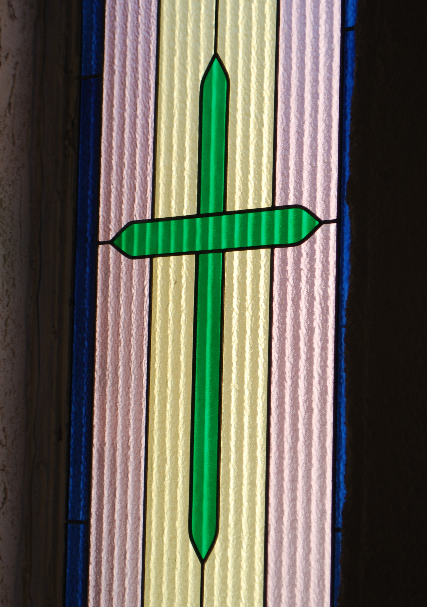 Exterior of Turner Chapel